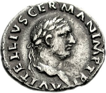 Vitellius. AD 69. AR Denarius (2.86 g, 6h). Rome mint. Laureate head of Vitellius right. Good VF, lightly toned, some smoothing and porosity. Rare. The inscription reads A(ulus) VITELLIVS GERMAN(icus) IMP(erator) TR(ibunicia) P(otestate).